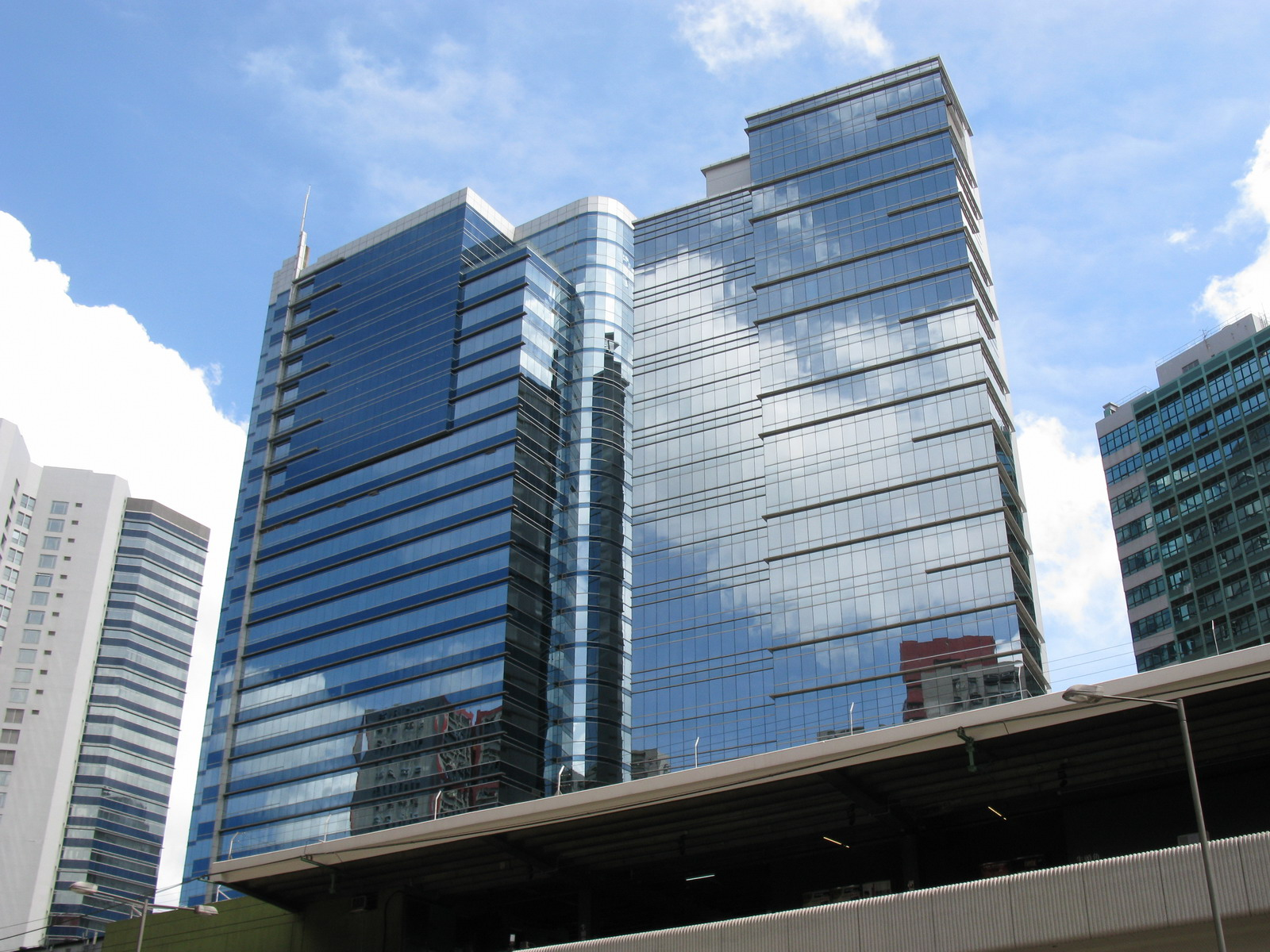 Millennium City 2 & 3